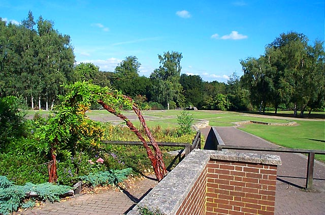 Site of the Hall in Shipley Country Park